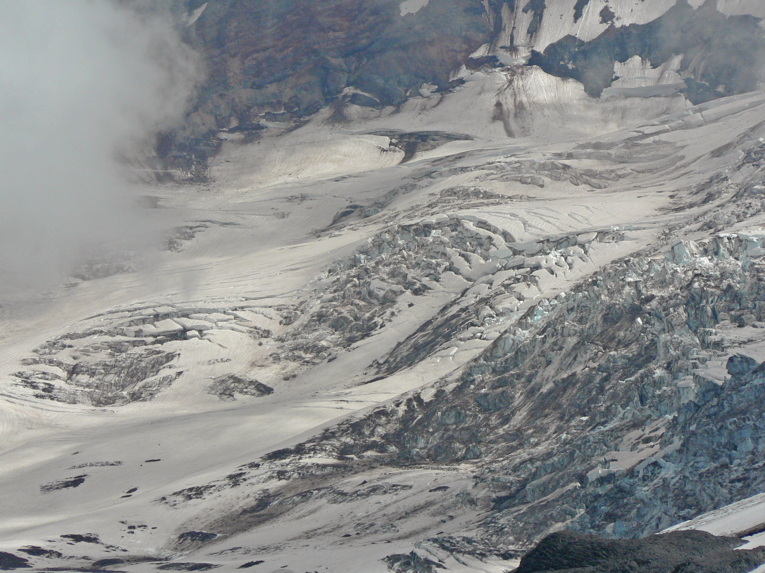 Carbon Glacier accumulation zone with Willis Wall behind